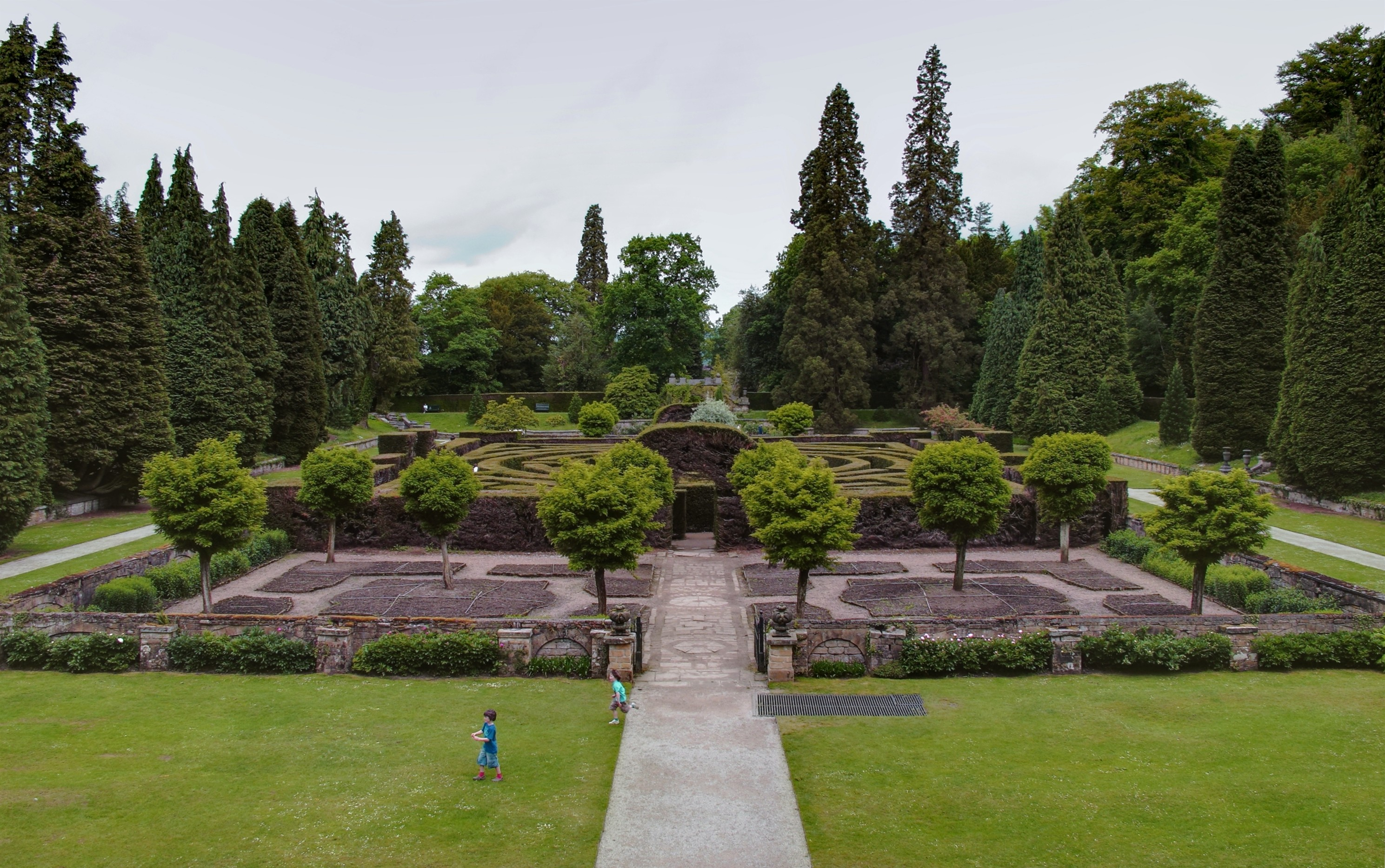 The Chatsworth maze at Chatsworth House, a large country house in Chatsworth, Derbyshire, England.